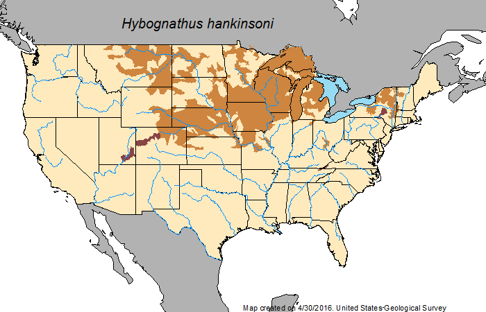 The map of the distribution of the fish Hybognathus hankinsoni in North America